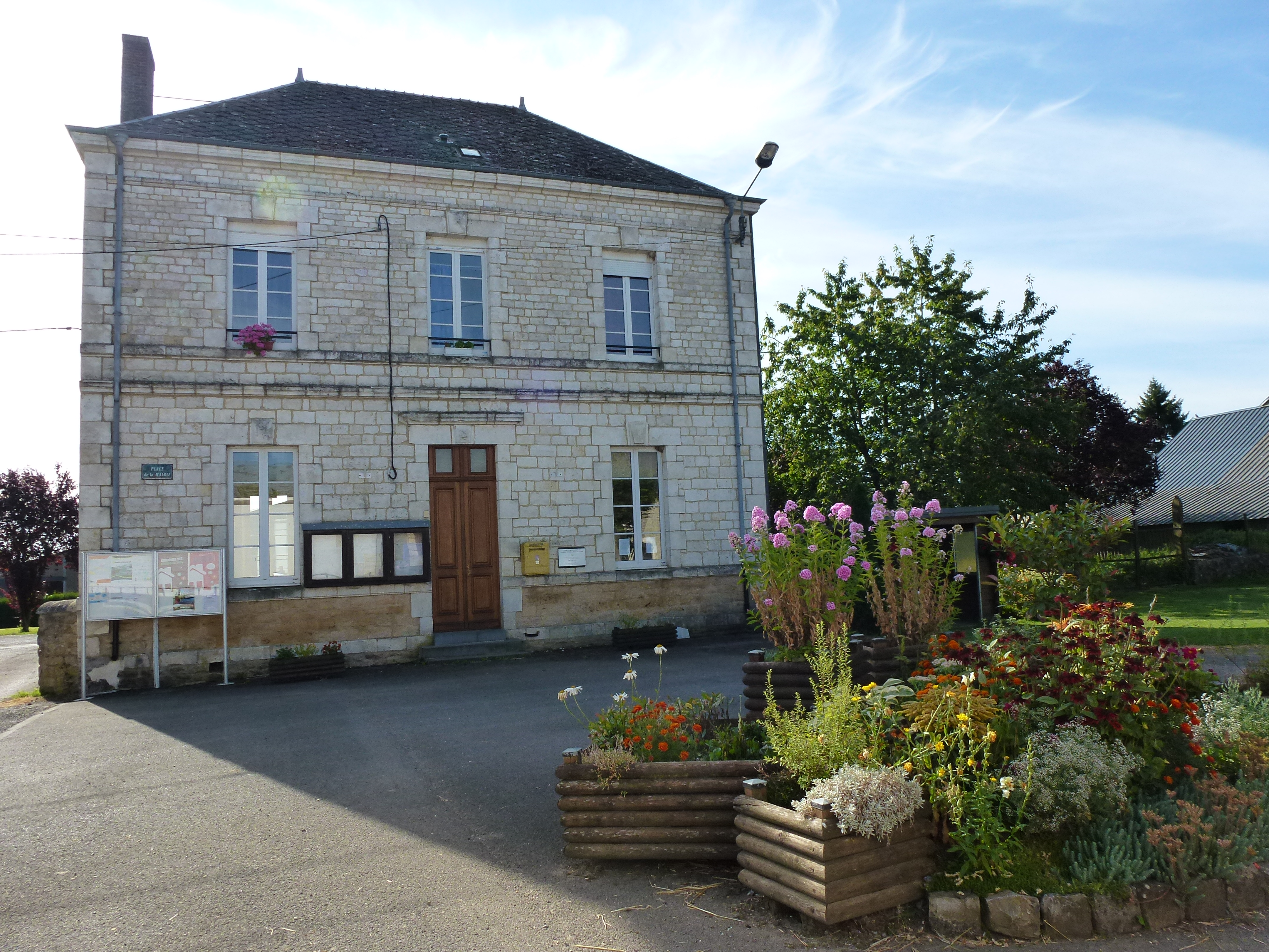 Champlin (Ardennes) mairie